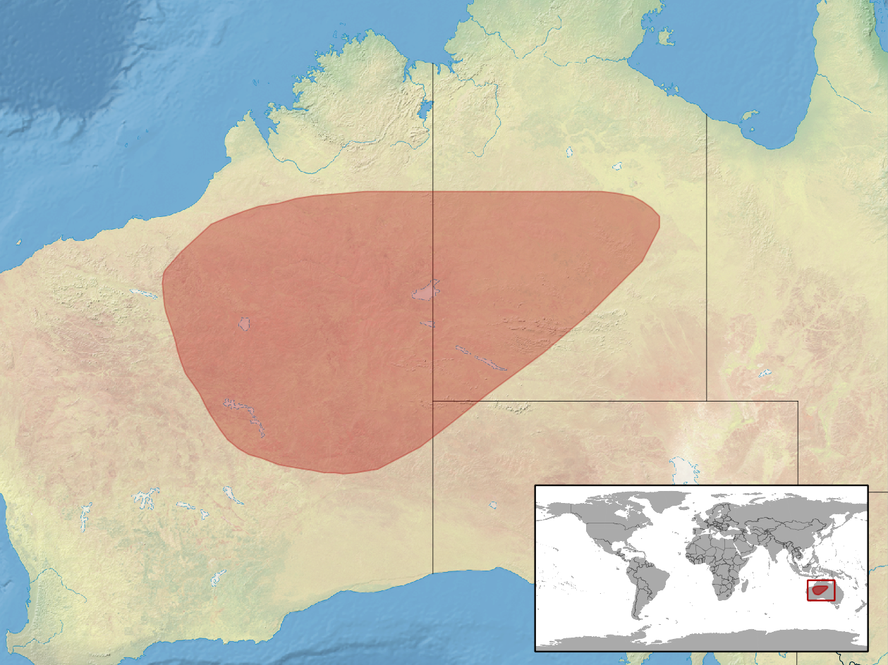 geographic distribution of Liopholis striata